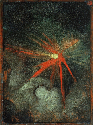 Reverse of Saint Jerome, about 1496, Albrecht Dürer. National Gallery London. NG page